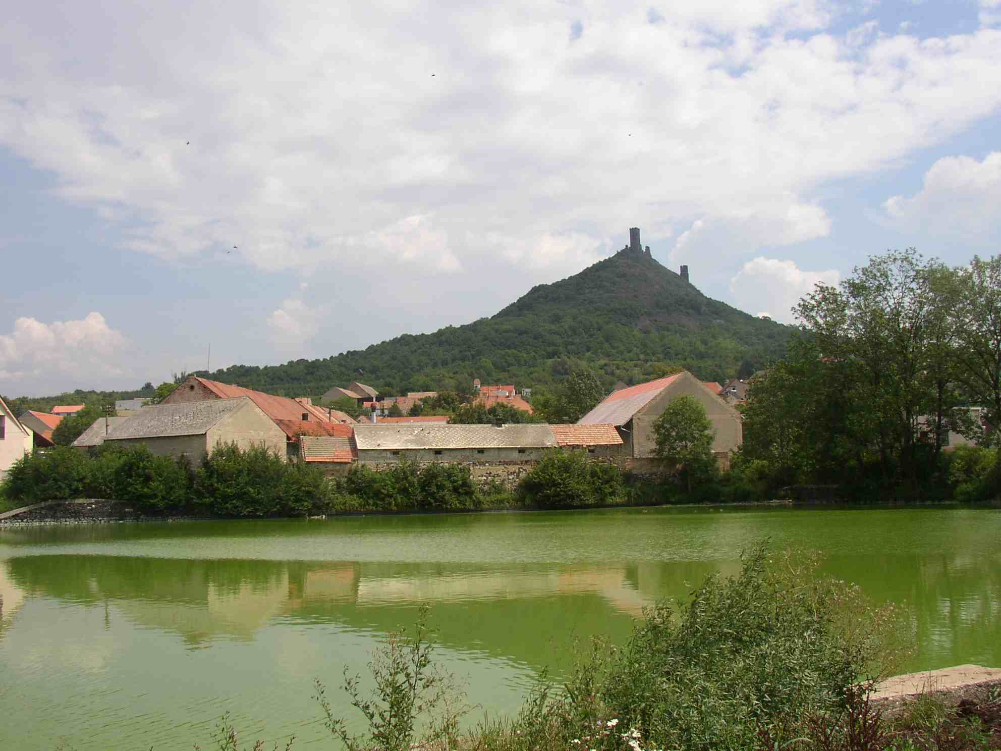 Village of Klapý near Libochovice, Czech Republic, as seen from local pond, Hazmburk Castle in the background.